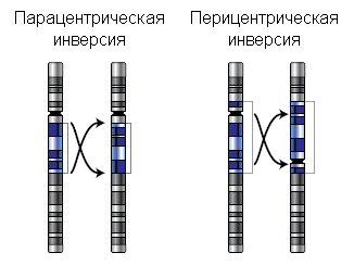 Paracentric and pericentric inversions